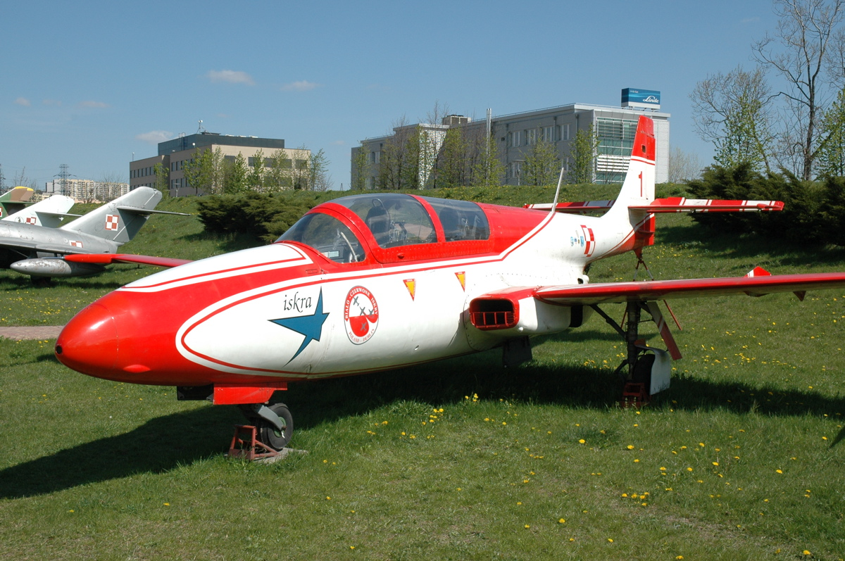 TS-11 Iskra, Polish jet trainer aircraft (Polish Aviation Museum, Cracow, Poland)